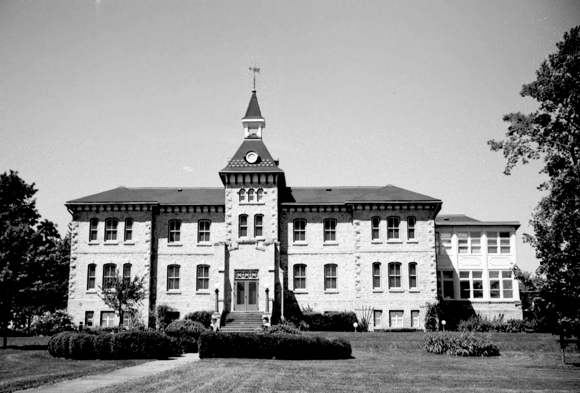 Wellington County Museum in Fergus